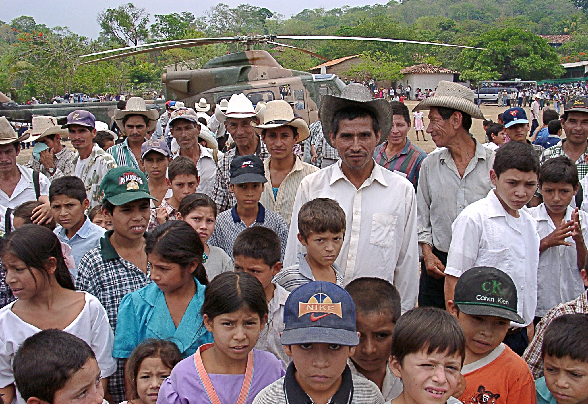 San Francisco Lempira 2000 Discription: In San Ramon the children are much more prominent than they are here. Camera Info: CASIO QV-3000EX, shot 2000:05:04 11:24:40Z, F-stop 5.6, Exposure 1/599, Focal Length 7.1mm, Focus 5 m. Contact creator at